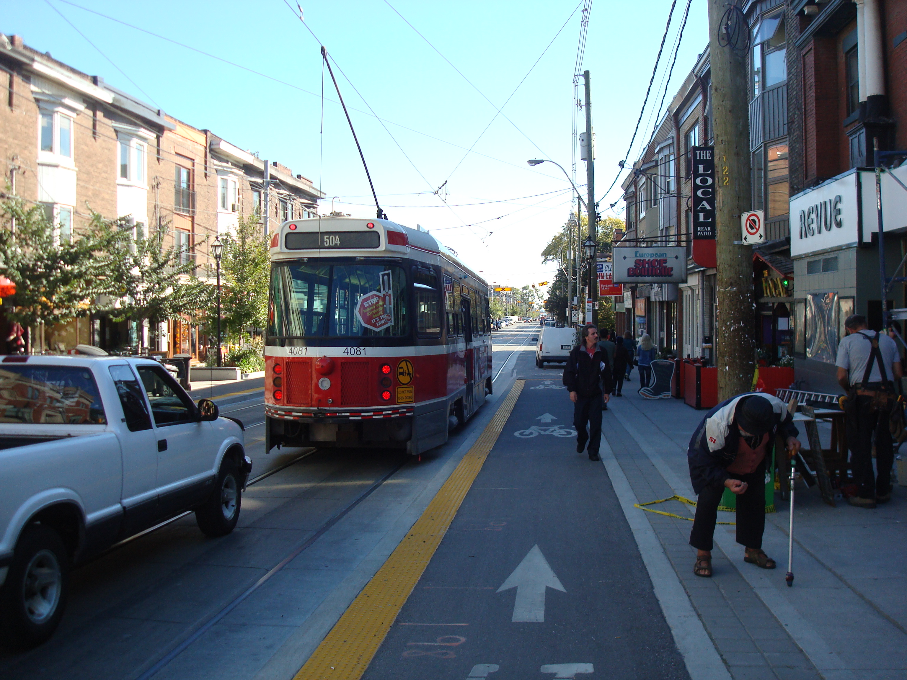 TTC CLRV 4081 on 504 King streetcar service departs the Howard Park Avenue stop on Roncesvalles Avenue in Toronto, Ontario, Canada on October 11, 2013. The road was rebuilt in 2011 to include dedicated streetcar platforms. To the right is the Revue Cinema.